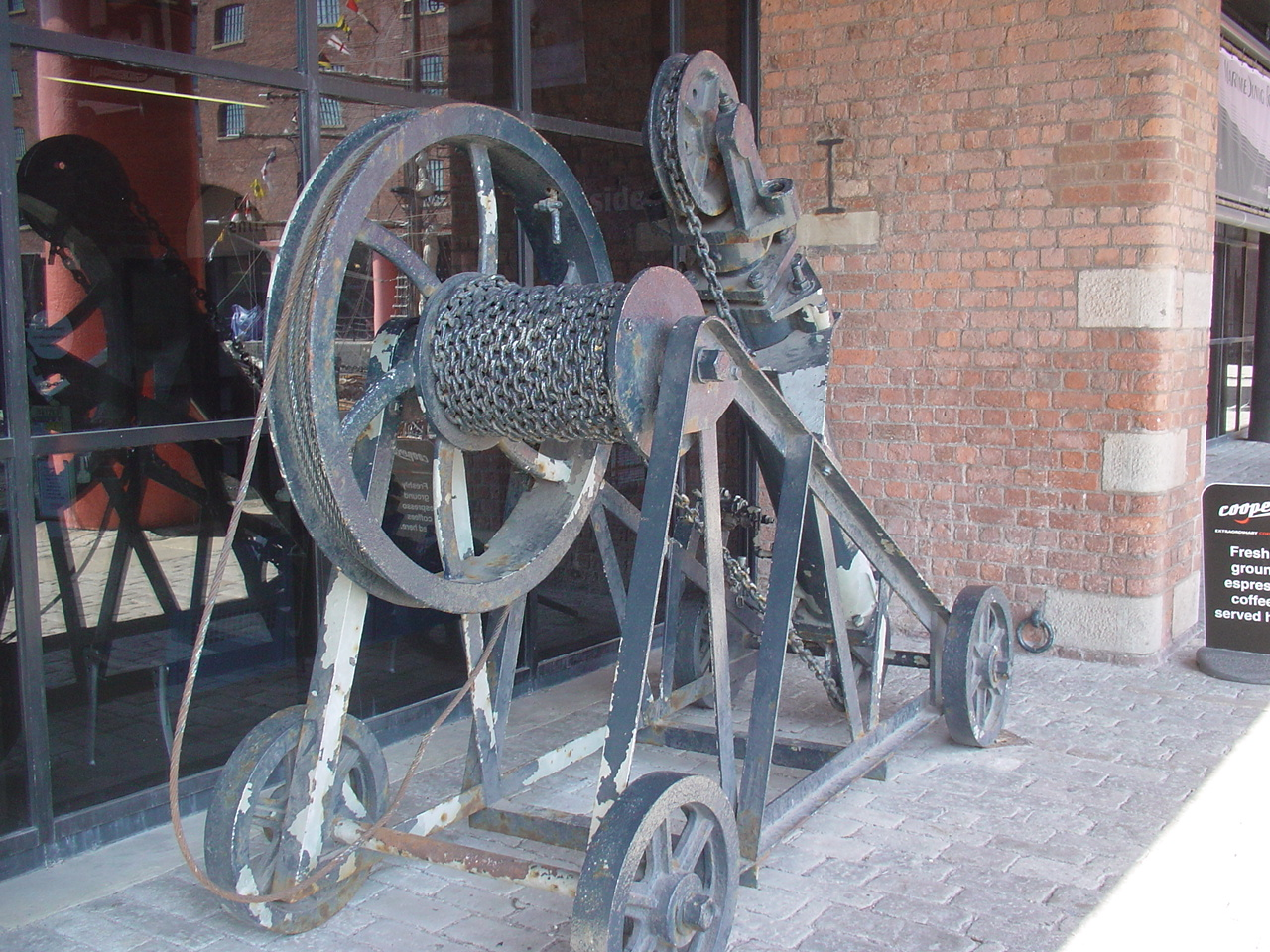 Albert Dock, Liverpool, England.